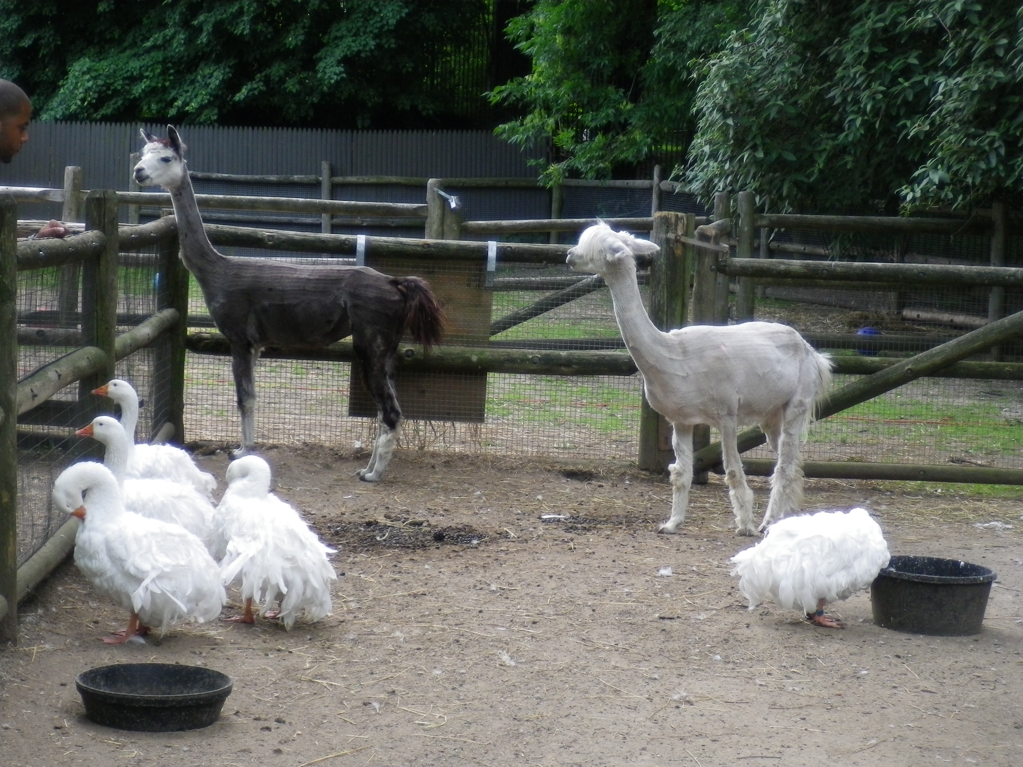 sebastopol geese and alpacas